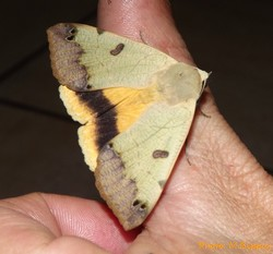 moth of Ophiusa legendrei (Viette 1967) from Réunion